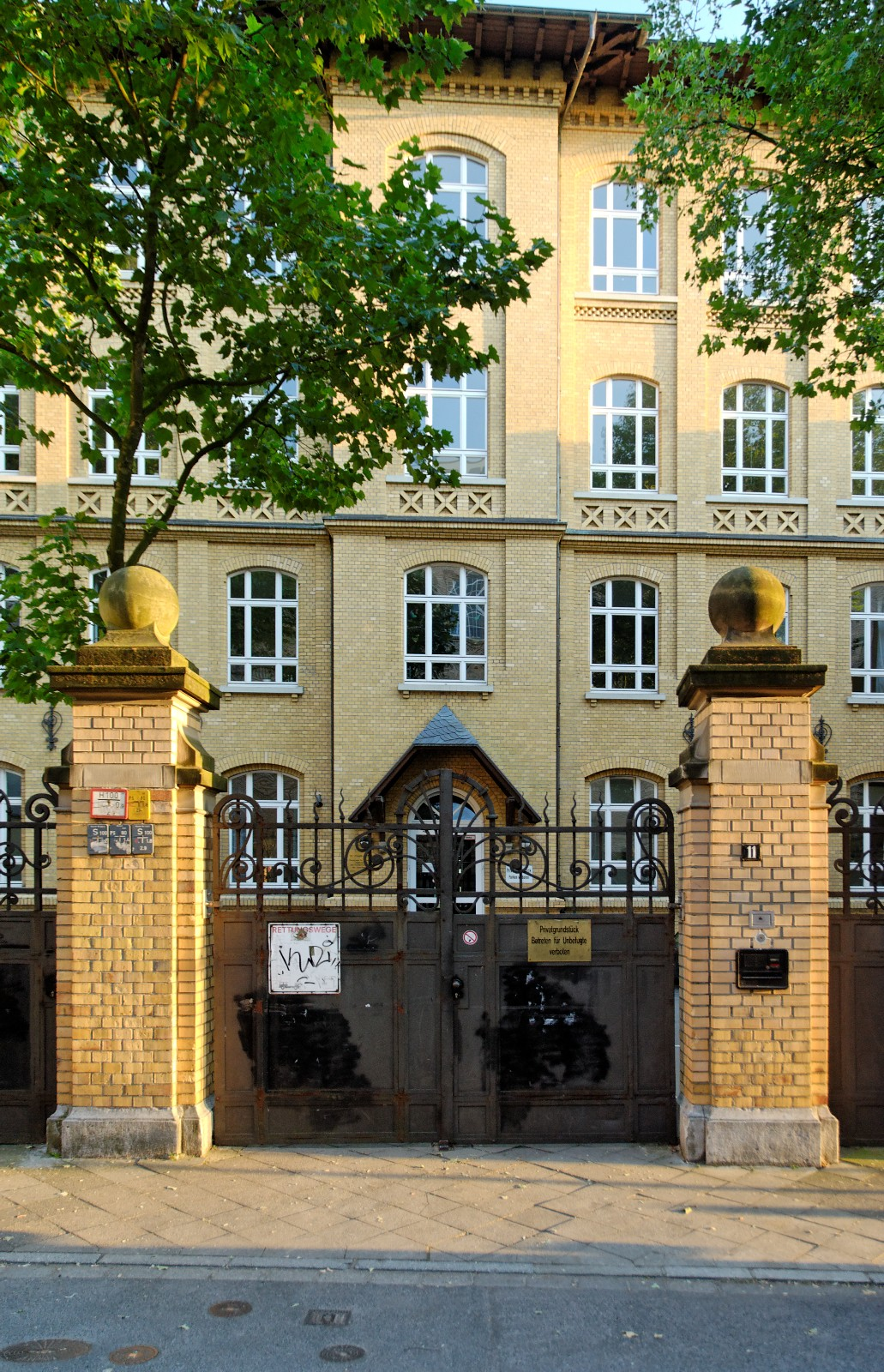 Saint Ursula Gymnasium in Düsseldorf-Altstadt, Germany